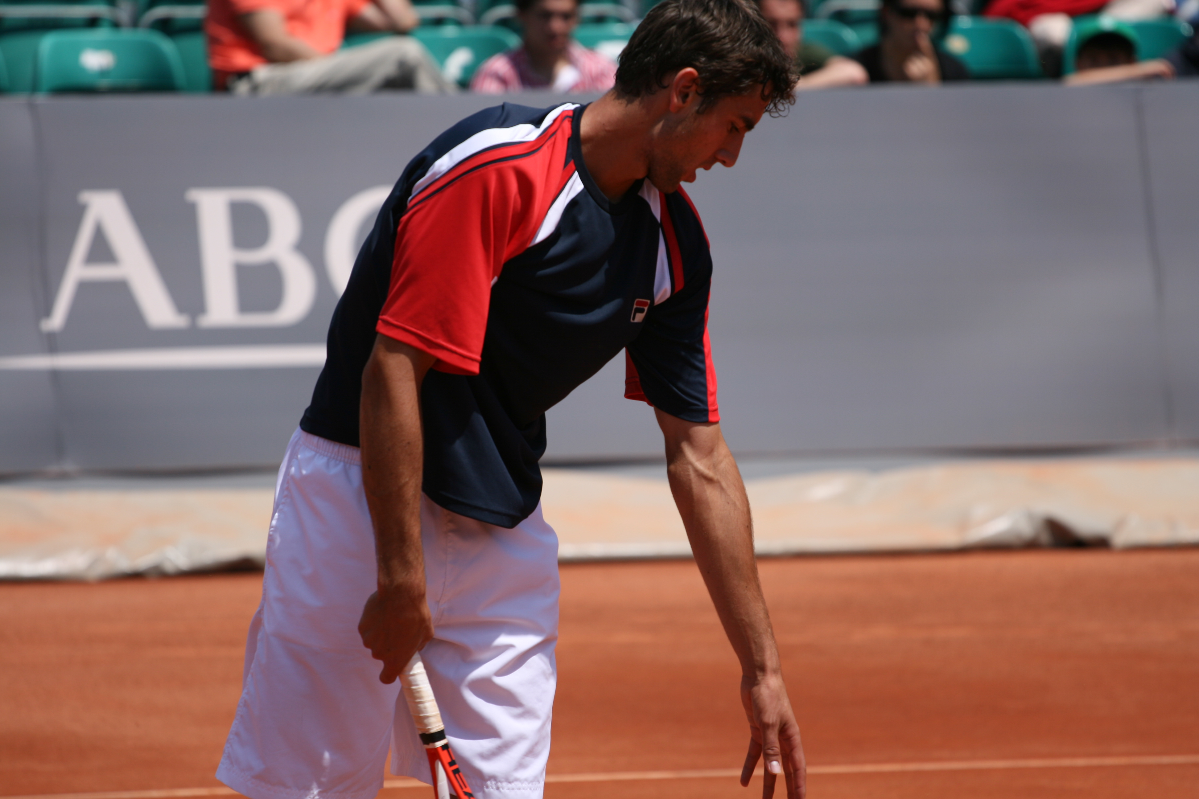 Marin Čilić against Philipp Kohlschreiber in the 2009 Mutua Madrileña Madrid Open second round